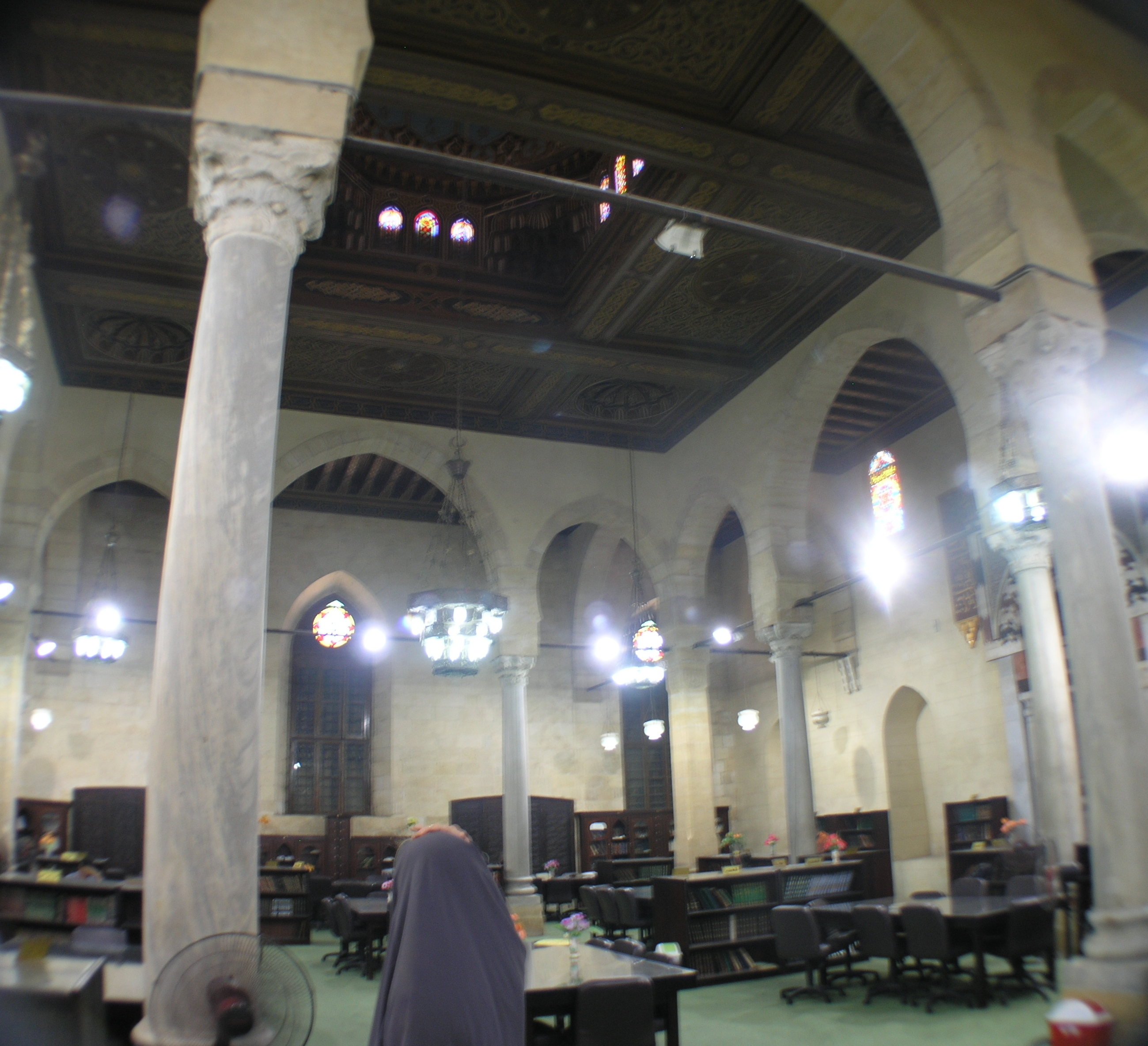 Cairo - Islamic district - Al Azhar Mosque and University study hall